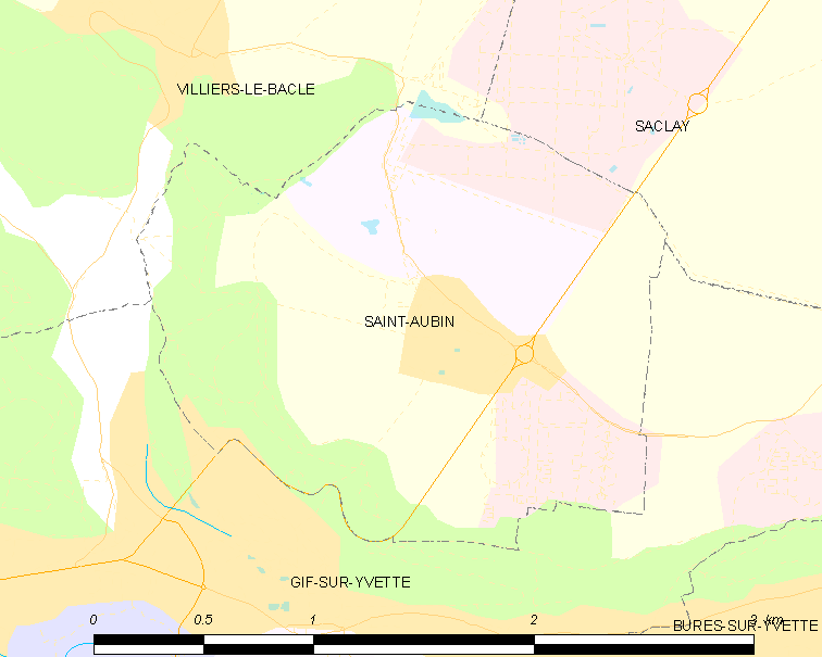 Map of French municipality Saint-Aubin